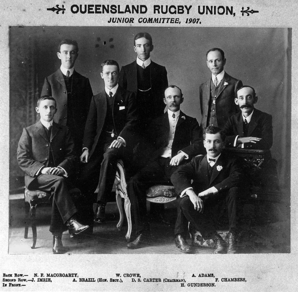 Queensland Rugby Union Junior Committee, 1907 The committee are: back row - N. F. MacGroarty, W. Crowe, A. Adams; second row - J. Imrie, A. Brazil (Hon. Secretary), D. S. Carter (Chairman), F. Chambers; front - H. Gunderson. (Description supplied with photograph.).